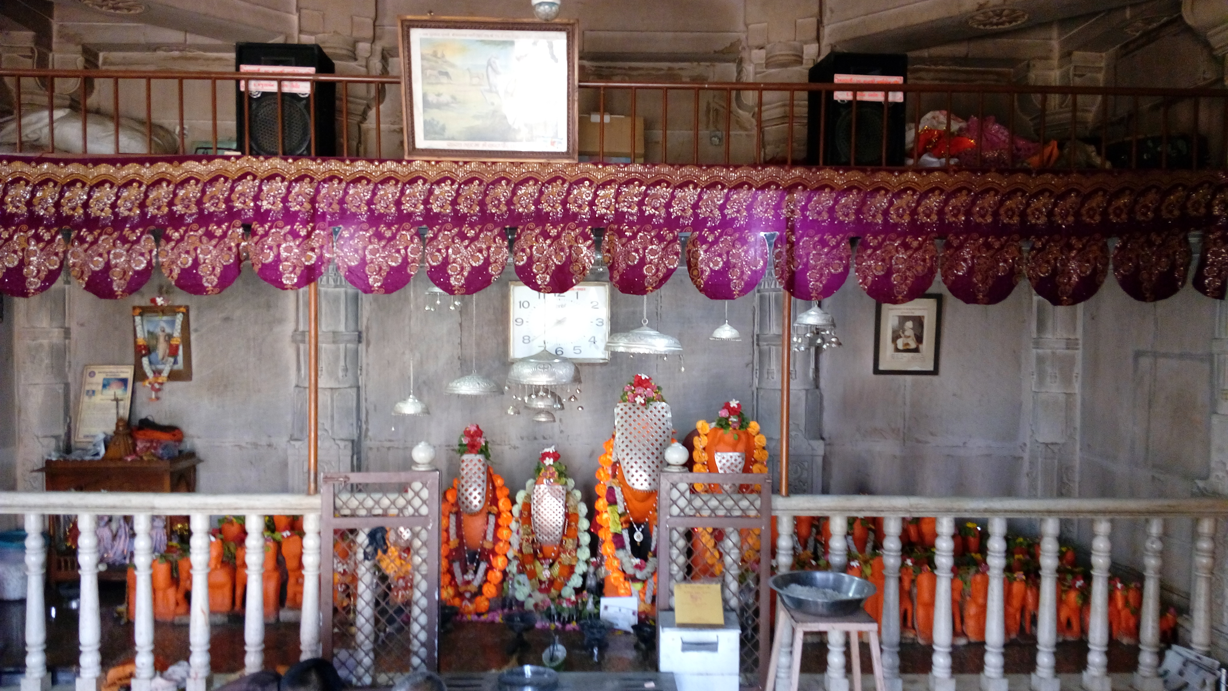 Raval Pir Dada is a folk deity of Kutch, Gujarat, India. The temple dedicated to him is located near Gundiyali and Sayla villages, Mandvi, Kutch, Gujarat.